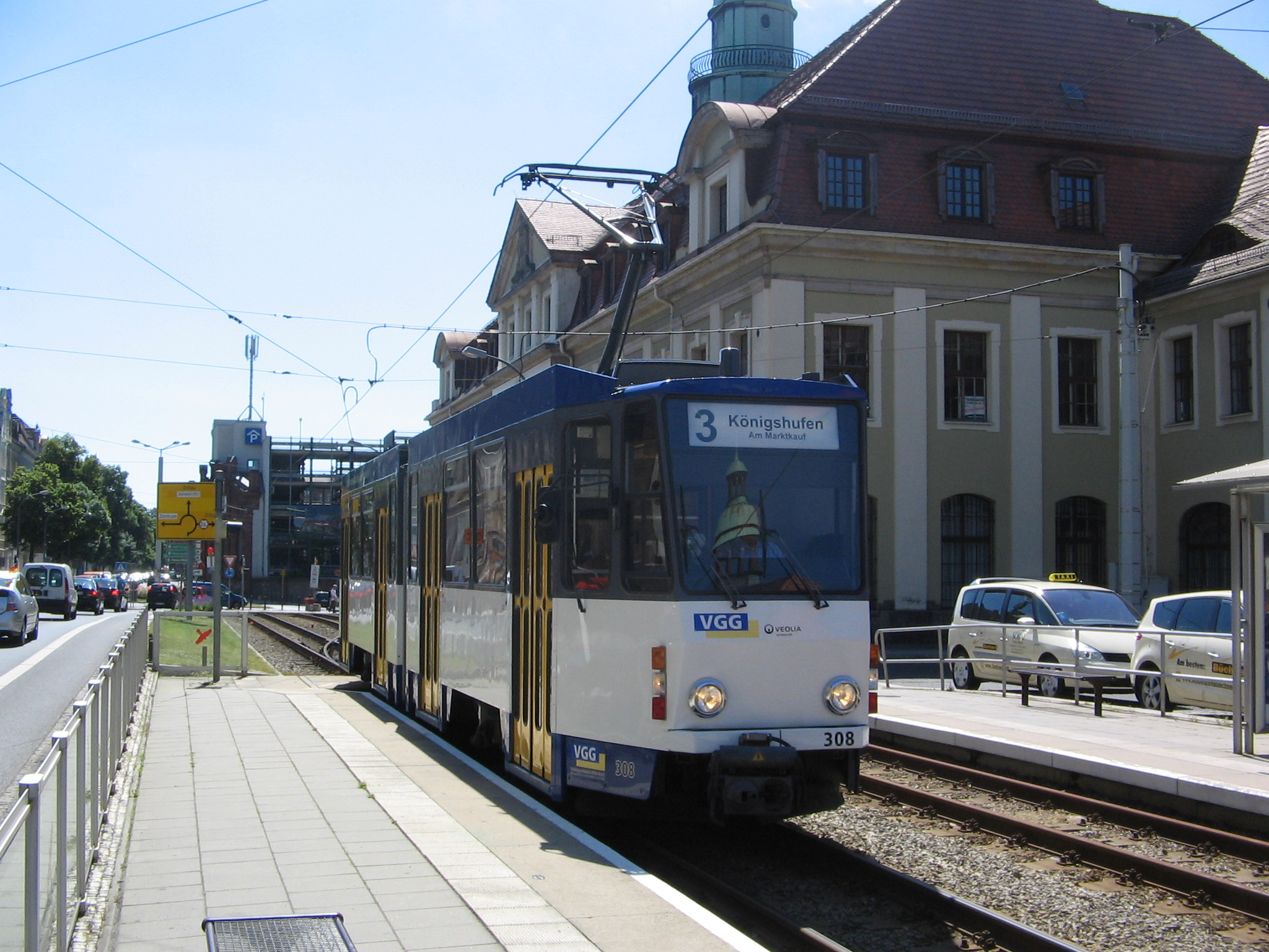 Streetcar No. 308 by railway station.